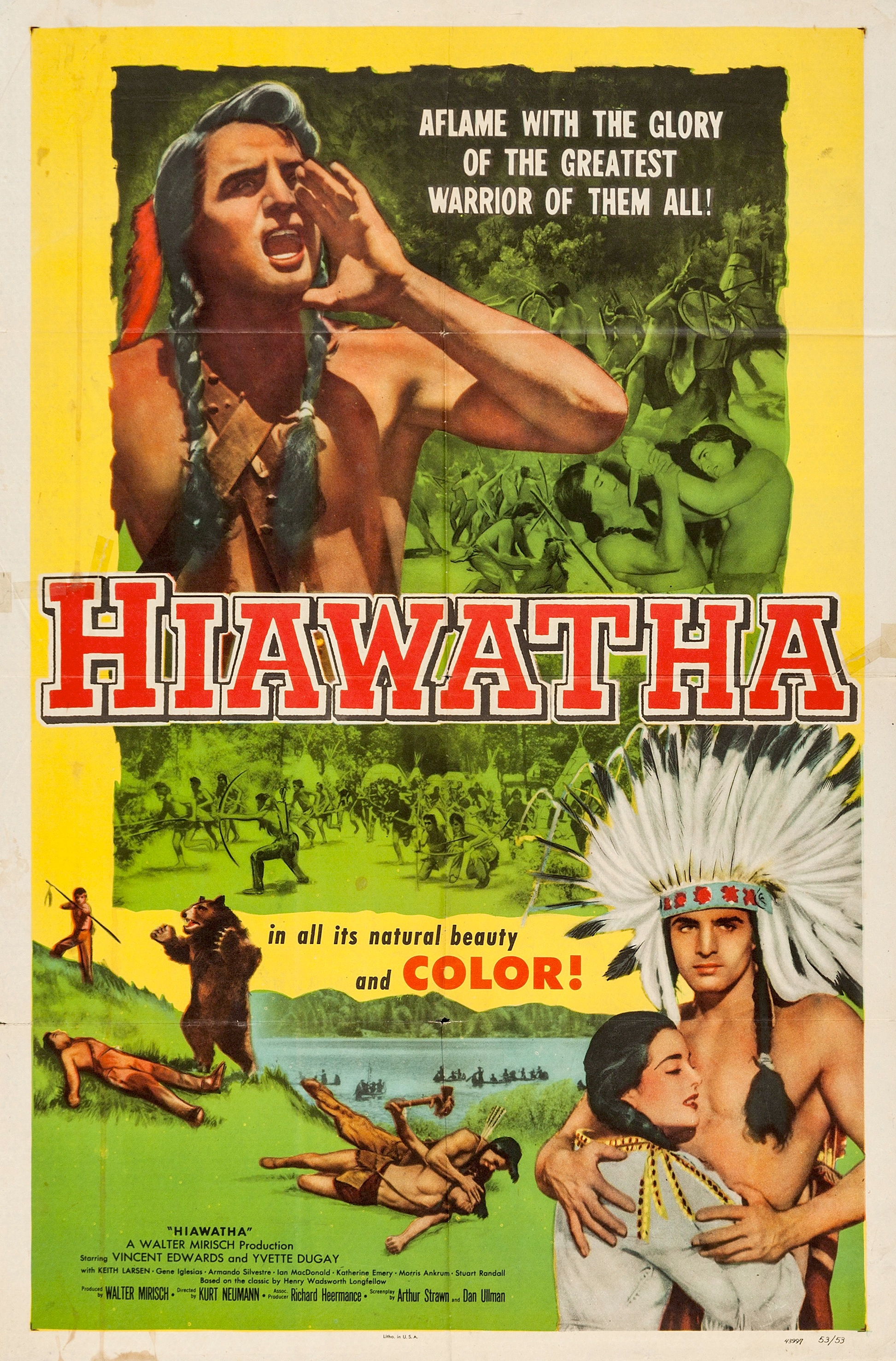 Hiawatha is a 1952 film. No copyright notice is evident in this large resolution scan, so it is clearly public domain.